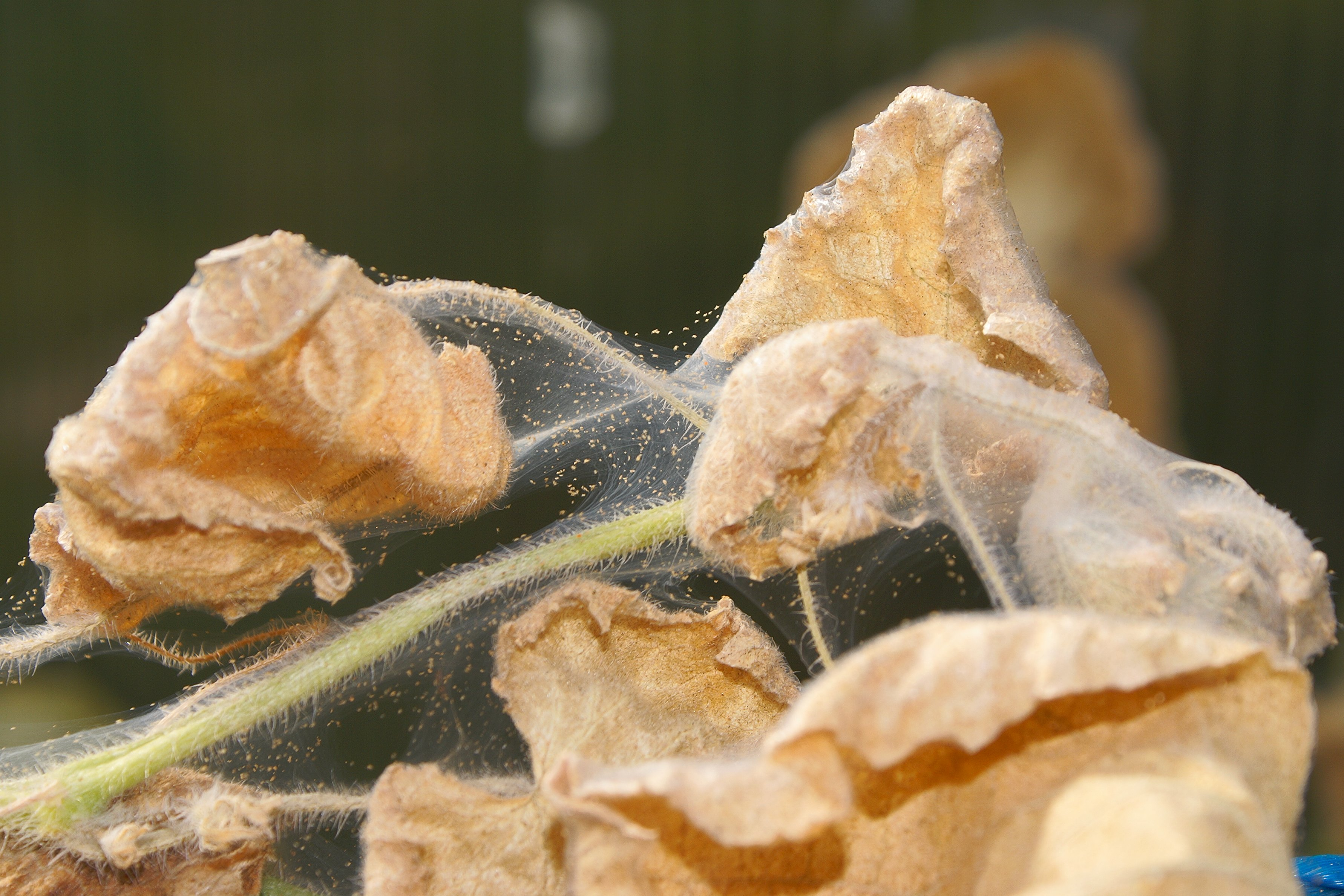 acarian3